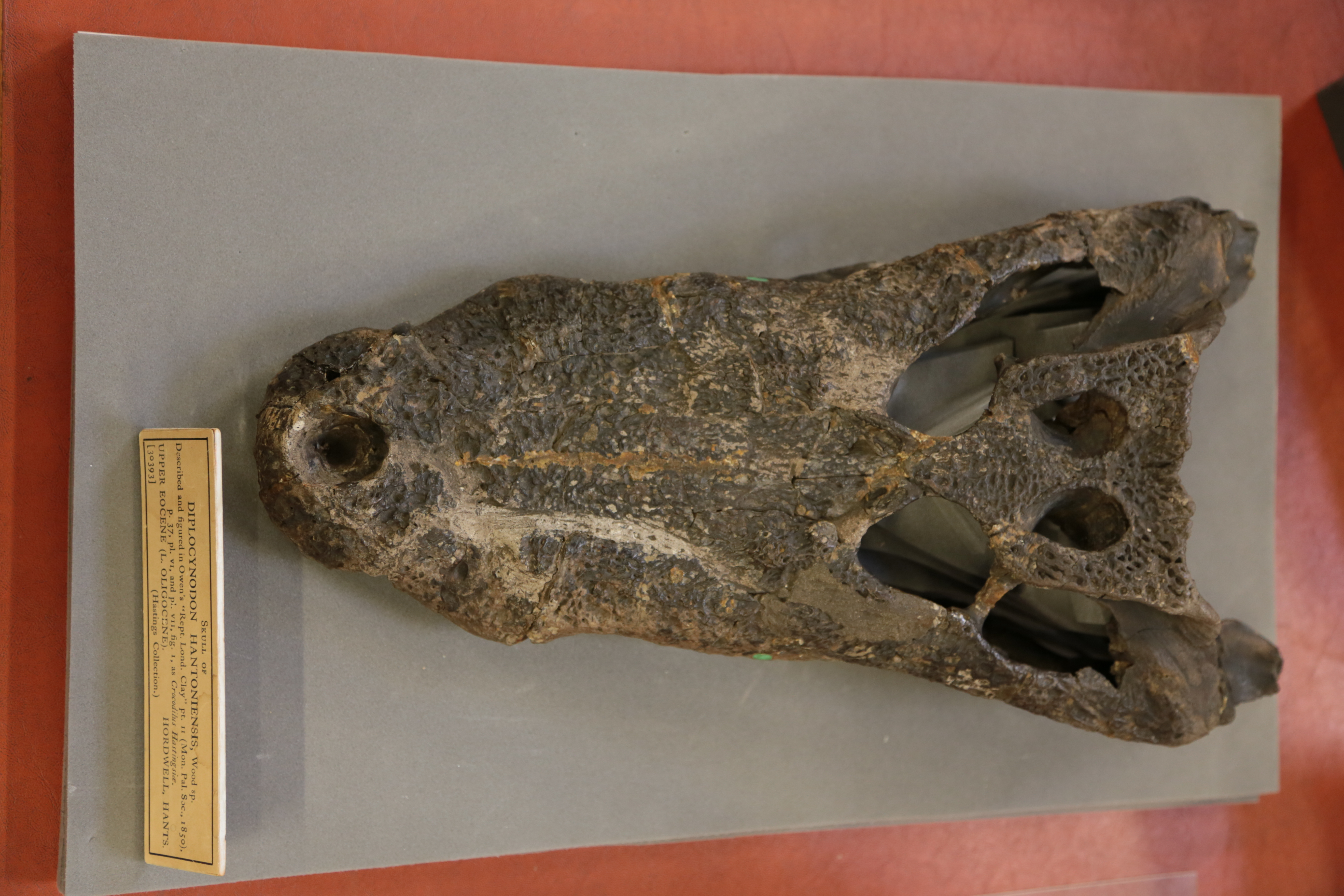 Skull of a Diplocynodon hantoniensis at the Natural History Museum, London